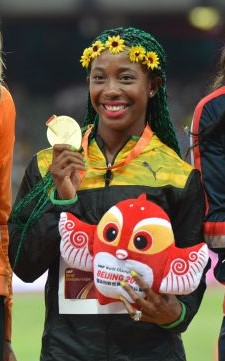 Shelly-Ann Fraser-Pryce